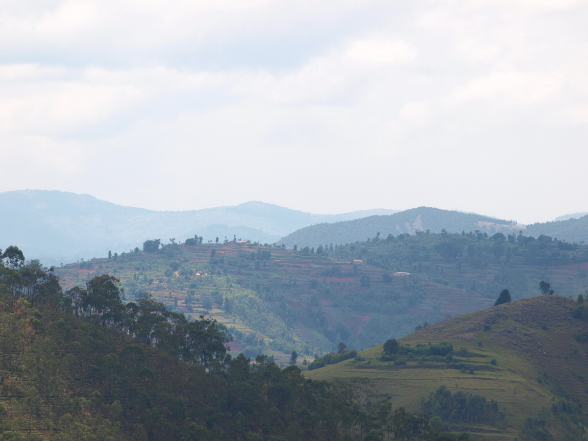 Southern Province, Rwanda - near the boarder with Burundi